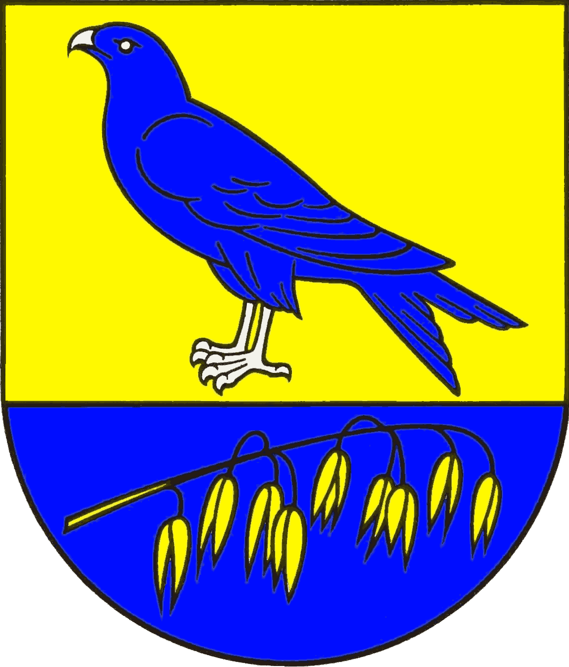 Coat of arms of the municipality Großenwiehe in Schlewswig-Holstein, Germany